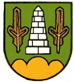 Coat of arms of the Town Lackenhäuser